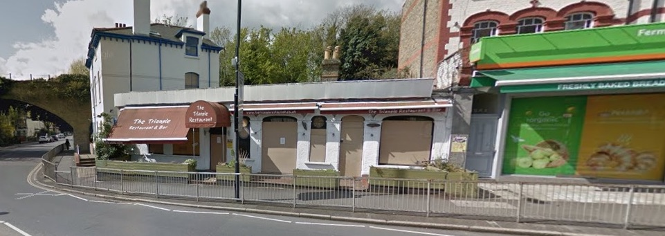 Triangle Restaurant, 1 Ferme Park Road, London, N4 4DS, UK; as seen prior to the site being redeveloped from October 2016 onwards..